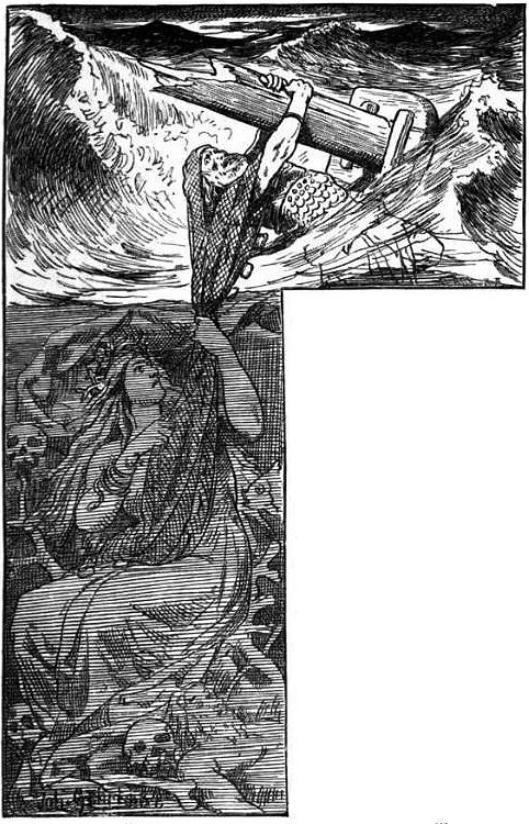 "Ran" (1901) by Johannes Gehrts. The sea goddess Rán pulls men into the sea, where they meet their watery doom among the bones and corpses of others.